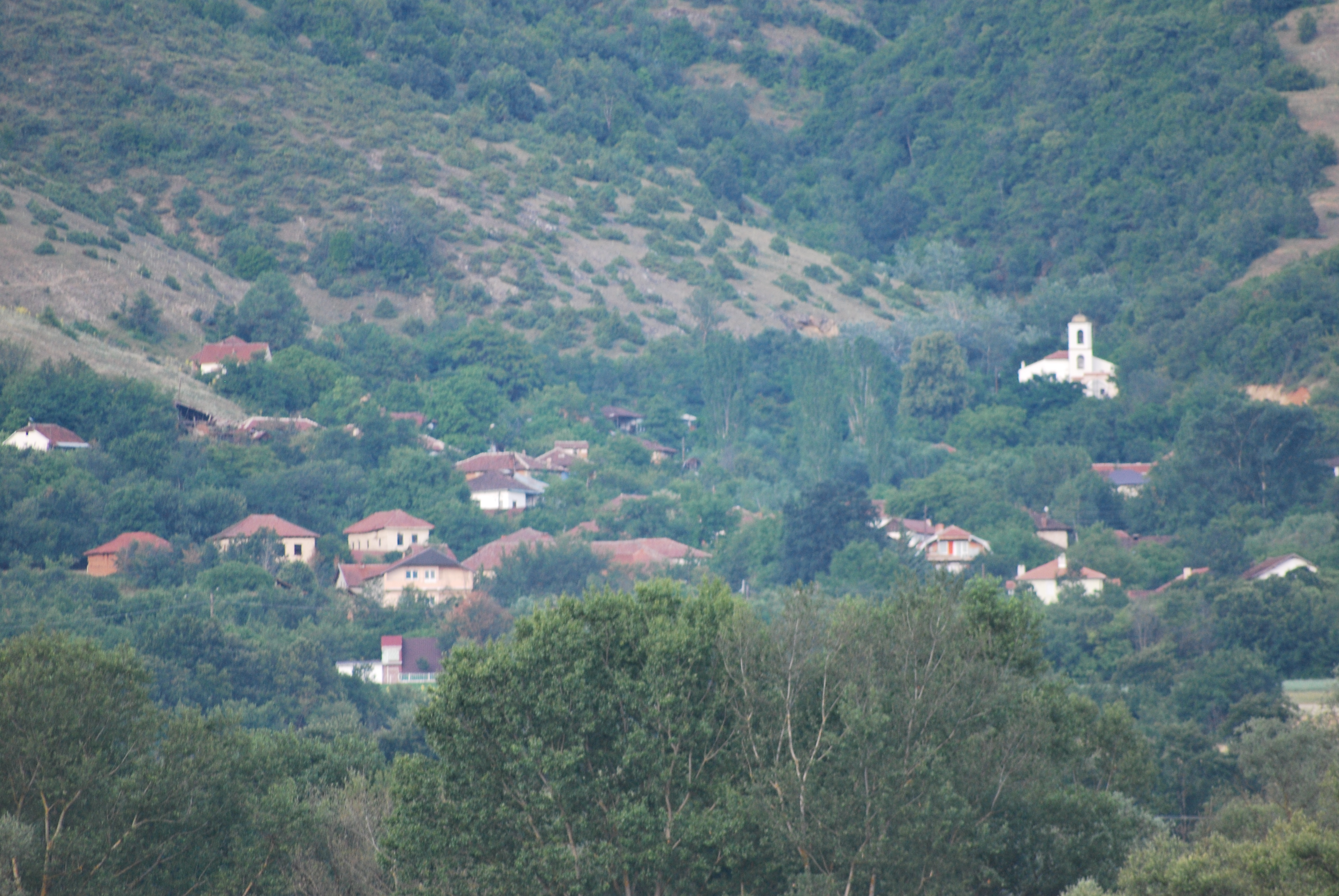 Stenče, Macedonia